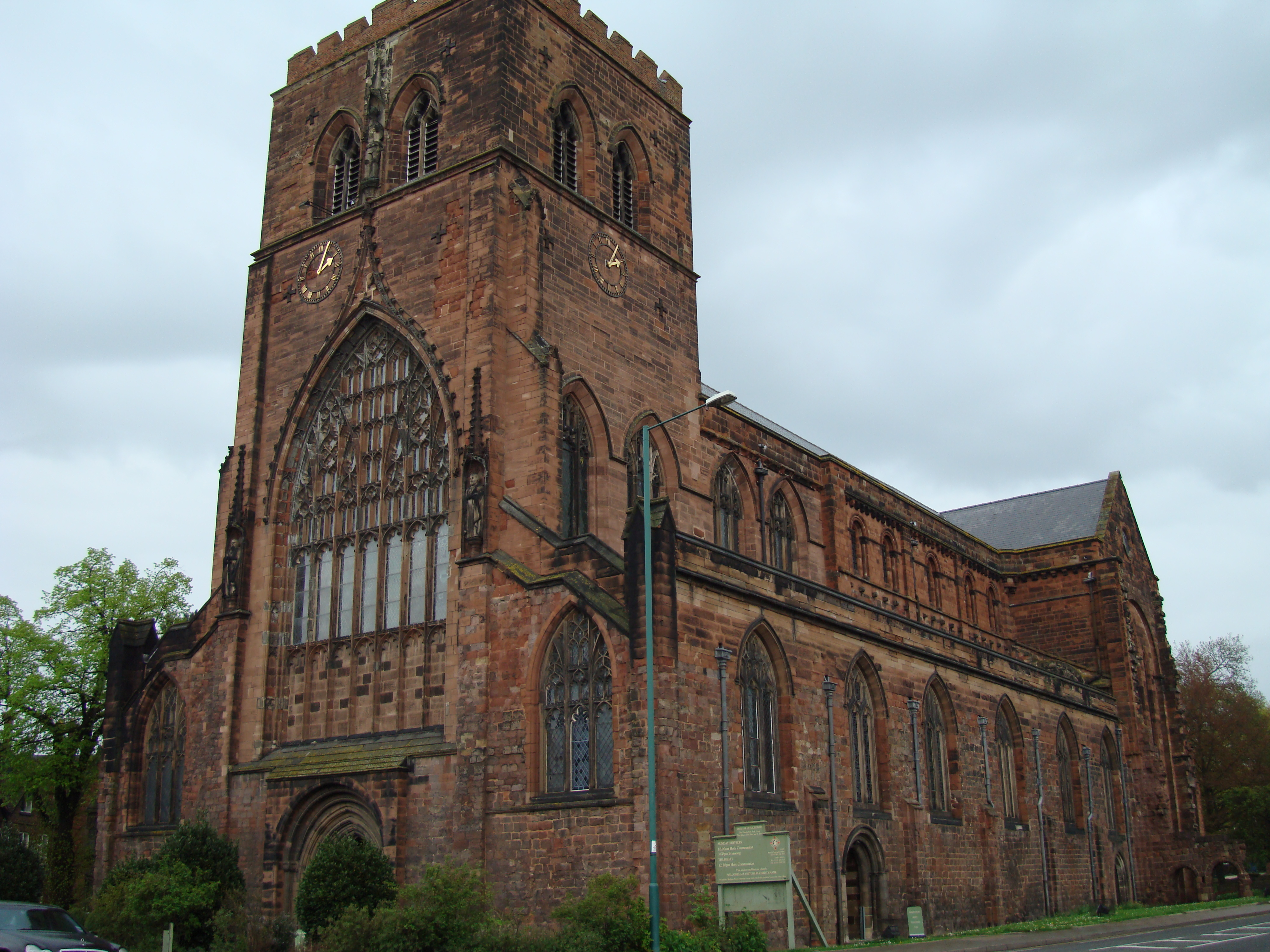 Photograph of Shrewsbury Abbey, Shropshire, England